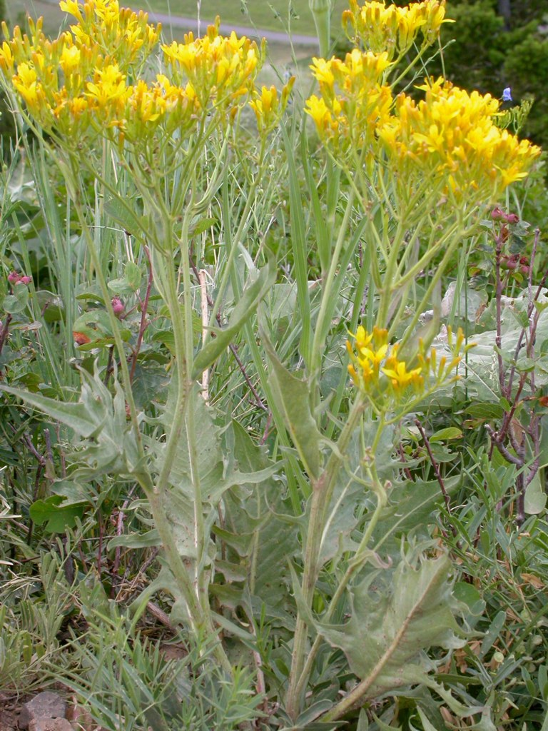 The flowering heads are narrow and glabrous in the region of the involucral bracts.